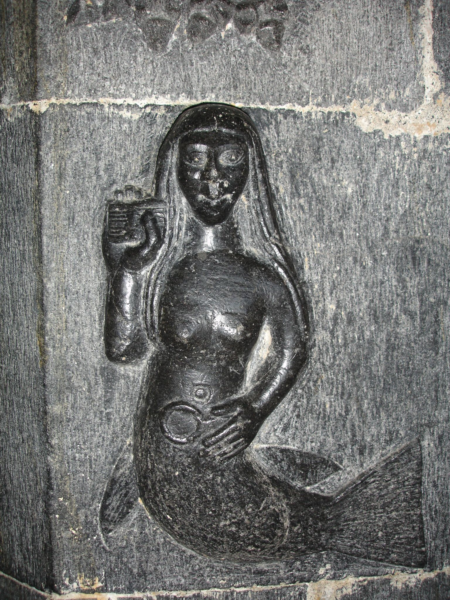 Clonfert Cathedral, Co. Galway, Ireland: Detail aus dem Inneren: Meerjungfrau